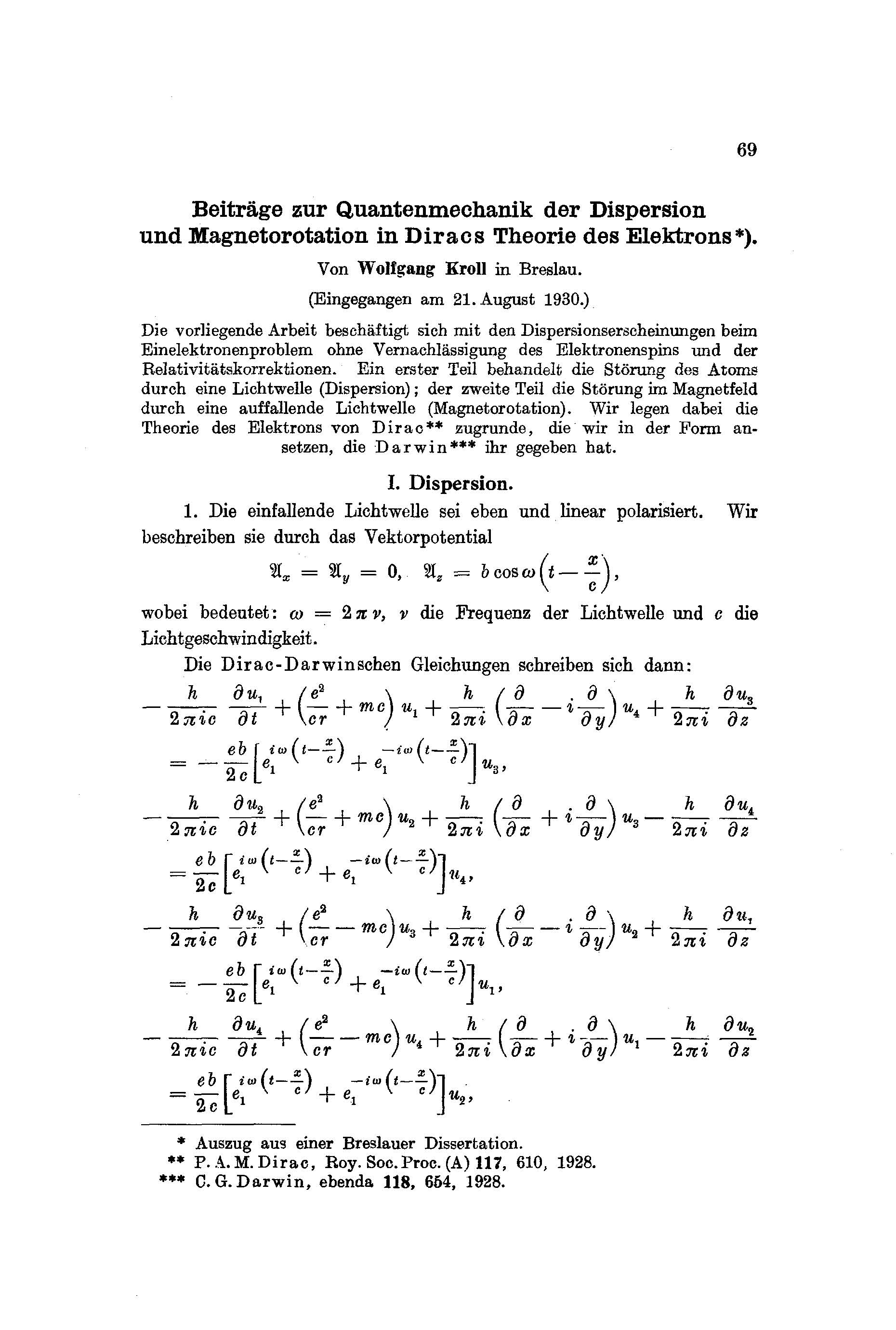 First page of the doctoral thesis of Wolfgang Kroll (1906–1992)